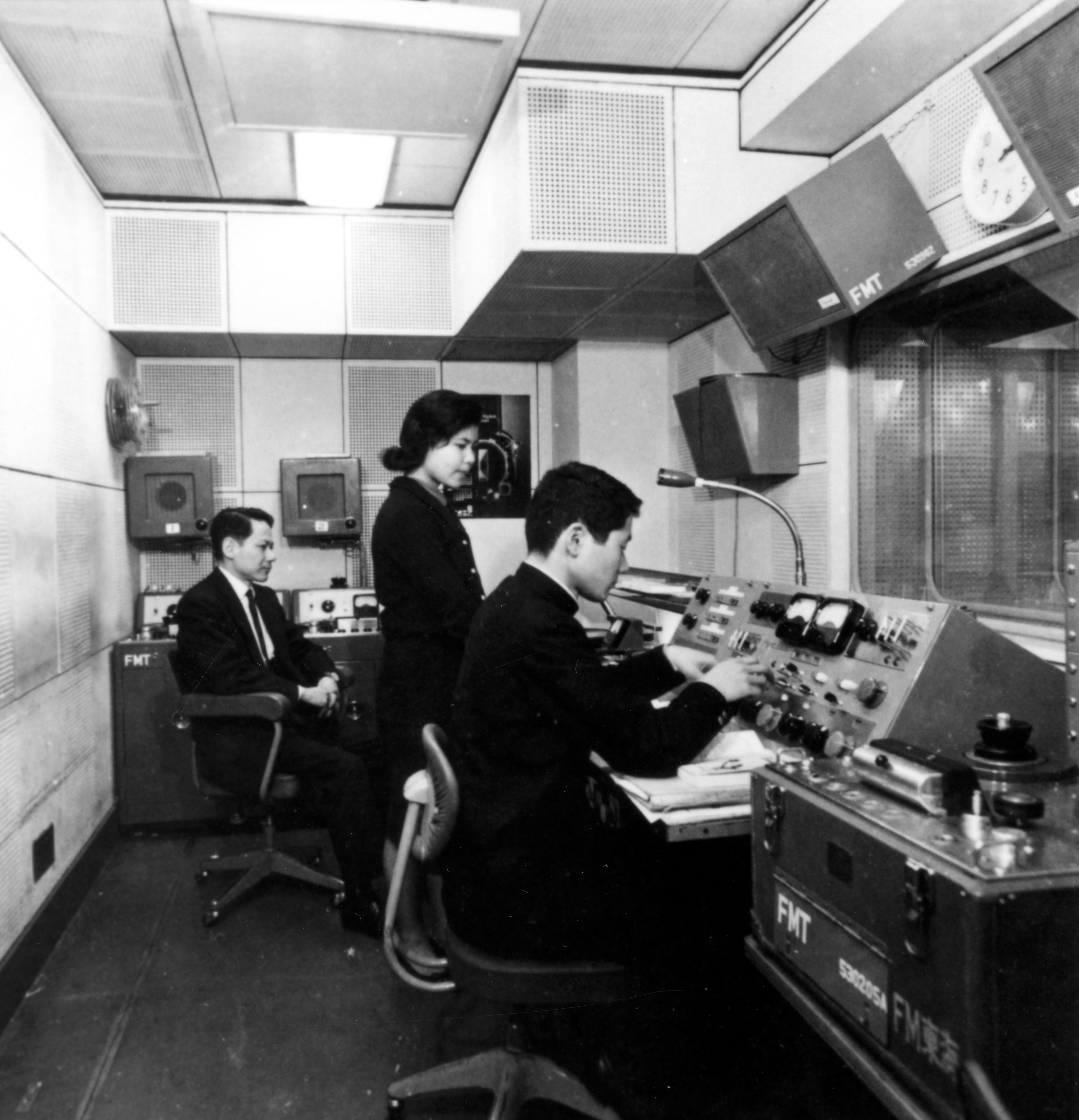 The first subcontrol room of FM Tokai at Invention Hall in Tokyo.